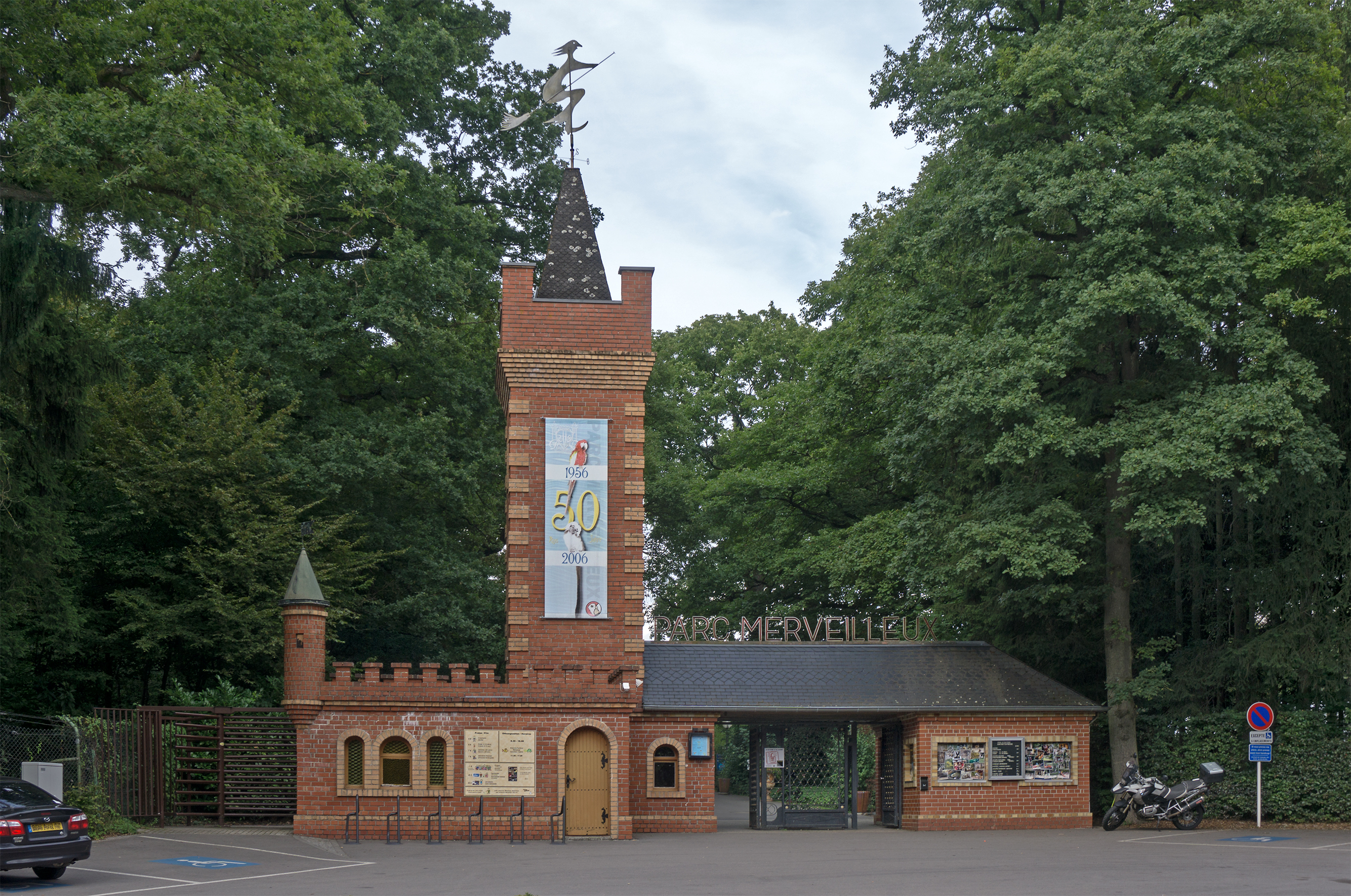 Church of Moestrorff